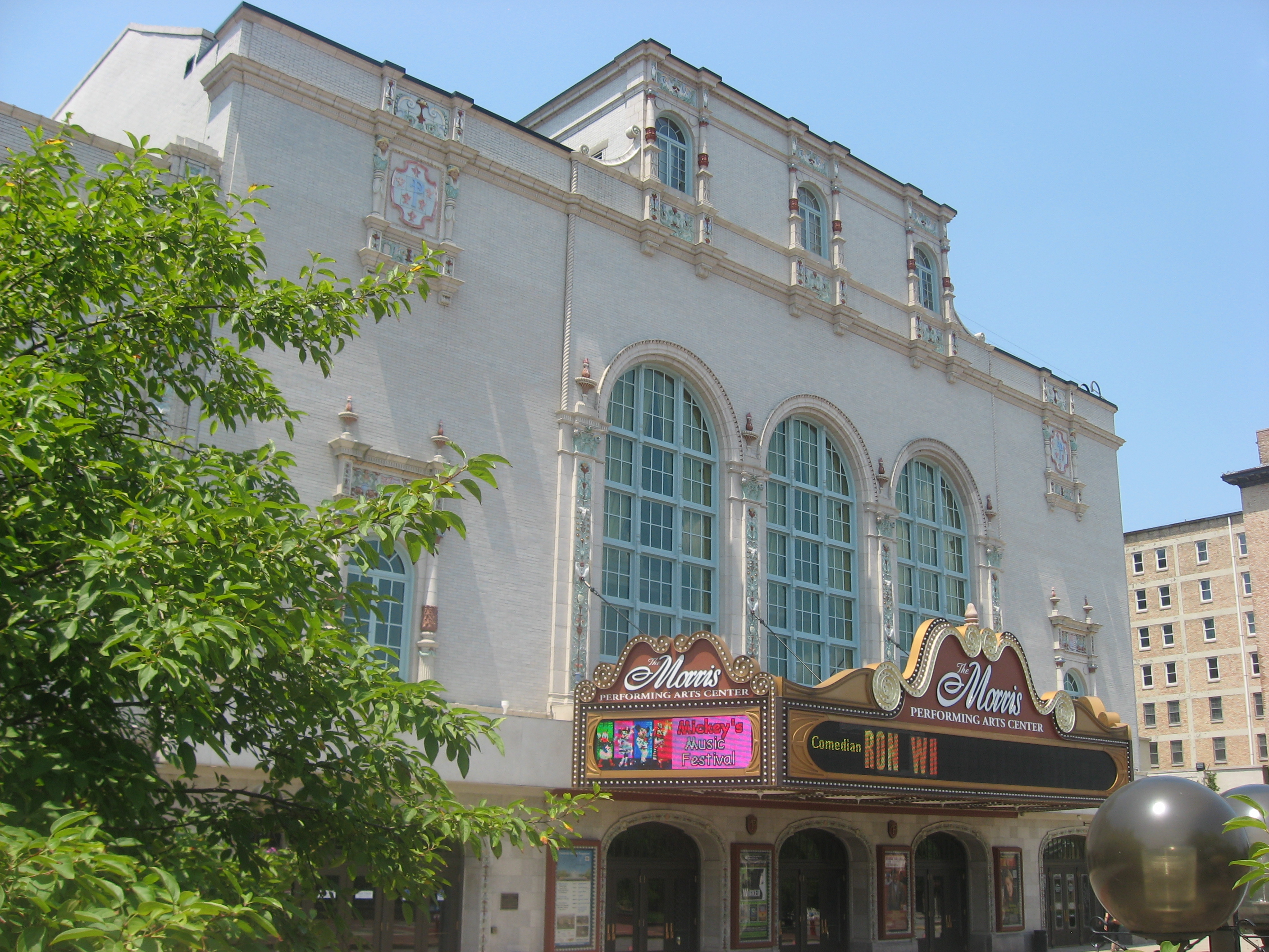 Front of the Palace Theater, now the Morris Performing Arts Center, located at 211 N. Michigan Street in South Bend, Indiana, United States. Built in 1921, it is listed on the National Register of Historic Places.